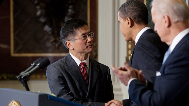 Commerce Secretary-designate Gary Locke with President Barack Obama and Vice President Joe Biden.